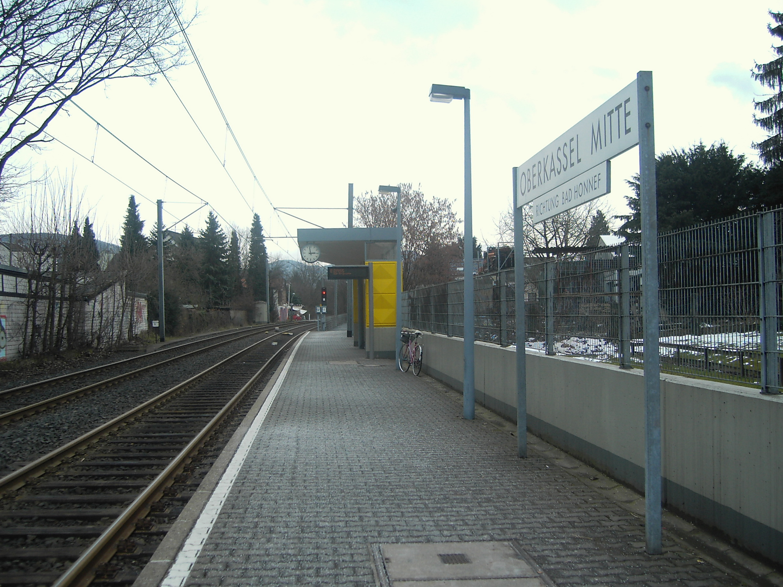 Urban railway stop Oberkassel Mitte of the Siebengebirgsbahn in Bonn-Oberkassel.